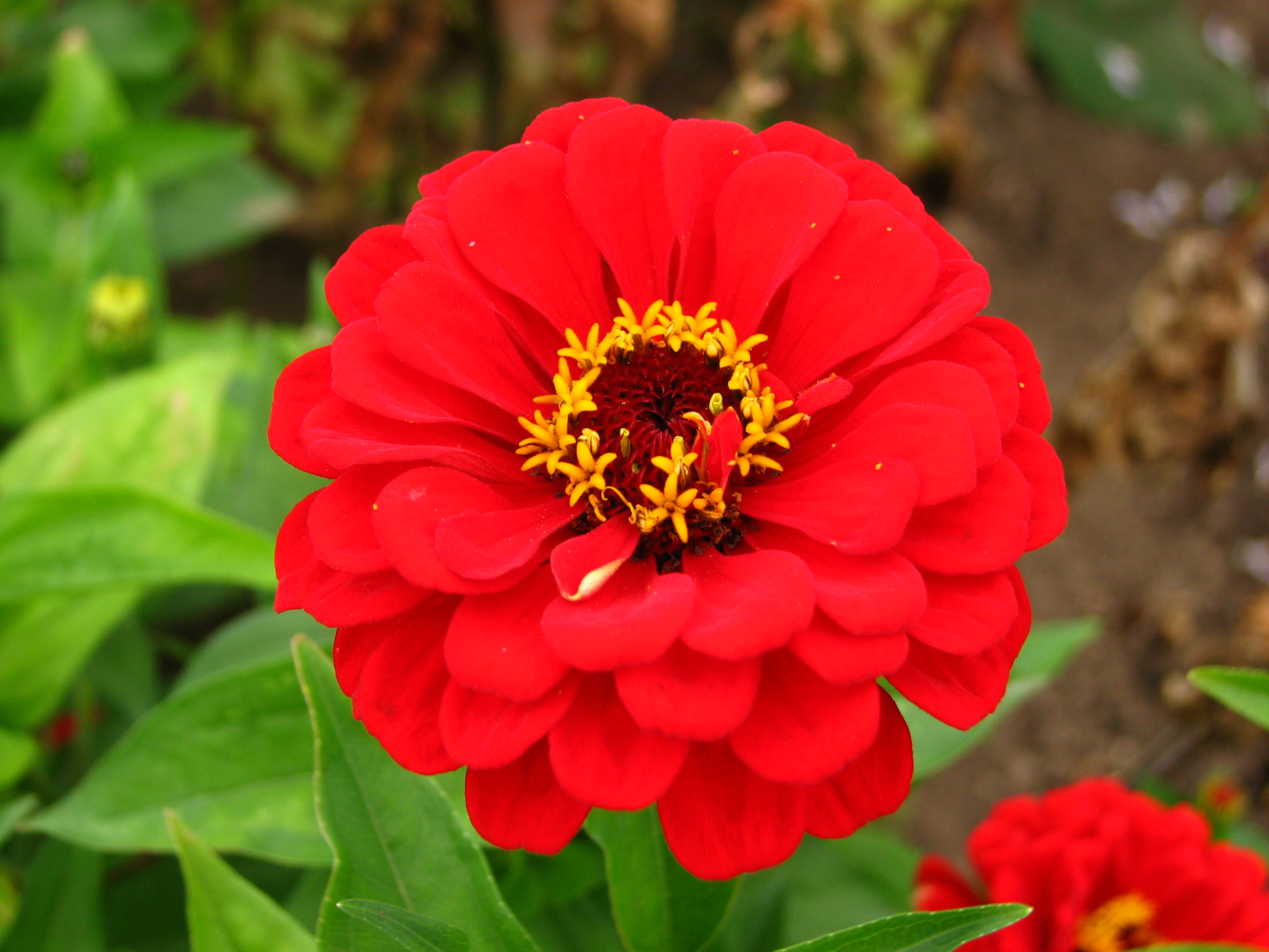 Flower beds in park Kolomenskoye (Moscow).